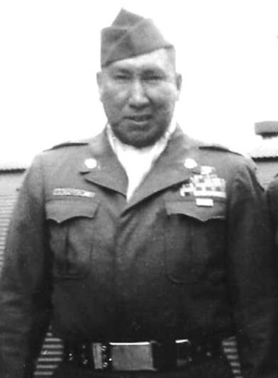 Photo acquired from private collection (courtesy Eugene Banaszewski)and digitized by author of primary article.